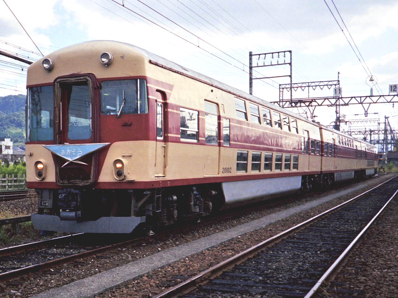 Kintetsu 20100 series EMU for "Aozara" school charter trains